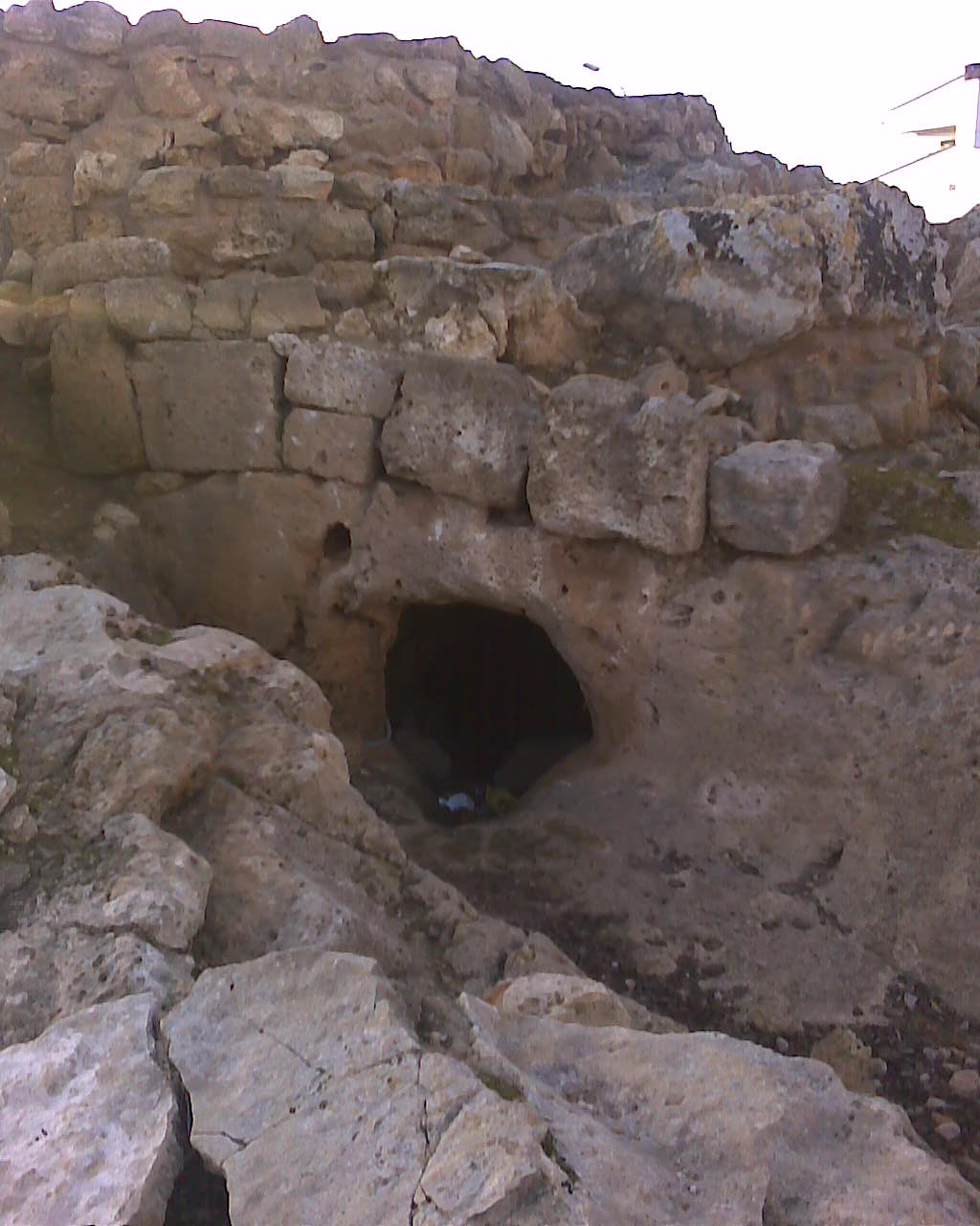 Entrance to the archaeologic site in the town of Son Ferrer, municipality of Calvià (Mallorca)